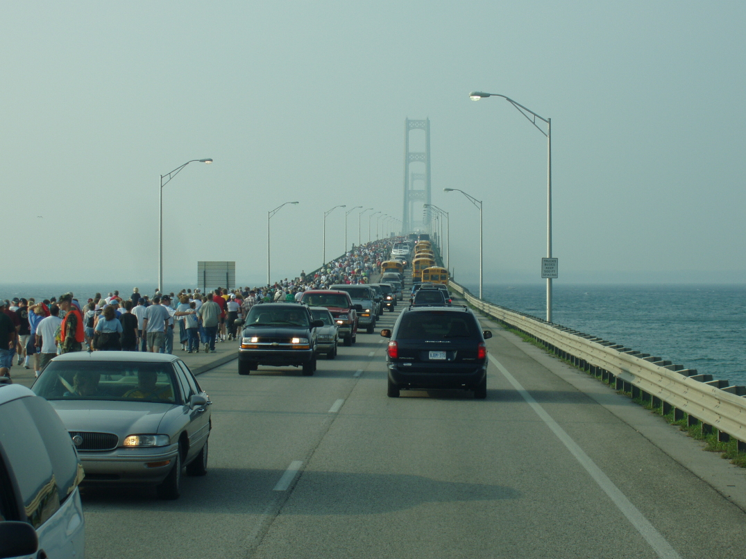 A photo taken from the St. Ignace (North) side of the Mackinac Bridge on September 6, 2004 during the annual Mackinac Bridge Walk.